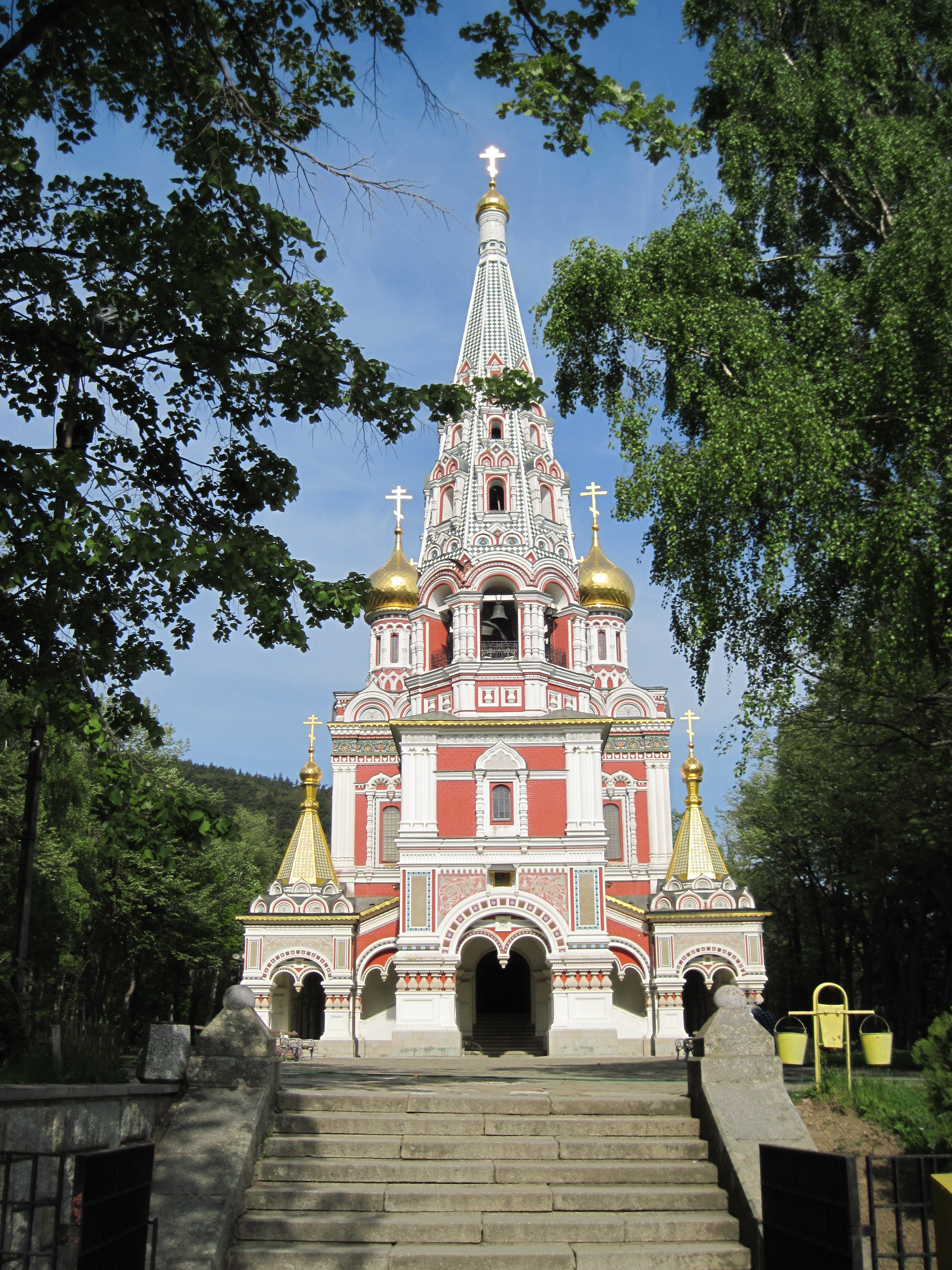 Front view of the Russian-style Shipka Memorial Church. Interlingua: Vista anterior del Ecclesia Memorial de Shipka, stilo russe, pauc al nord de Kazanlâk, Bulgaria.